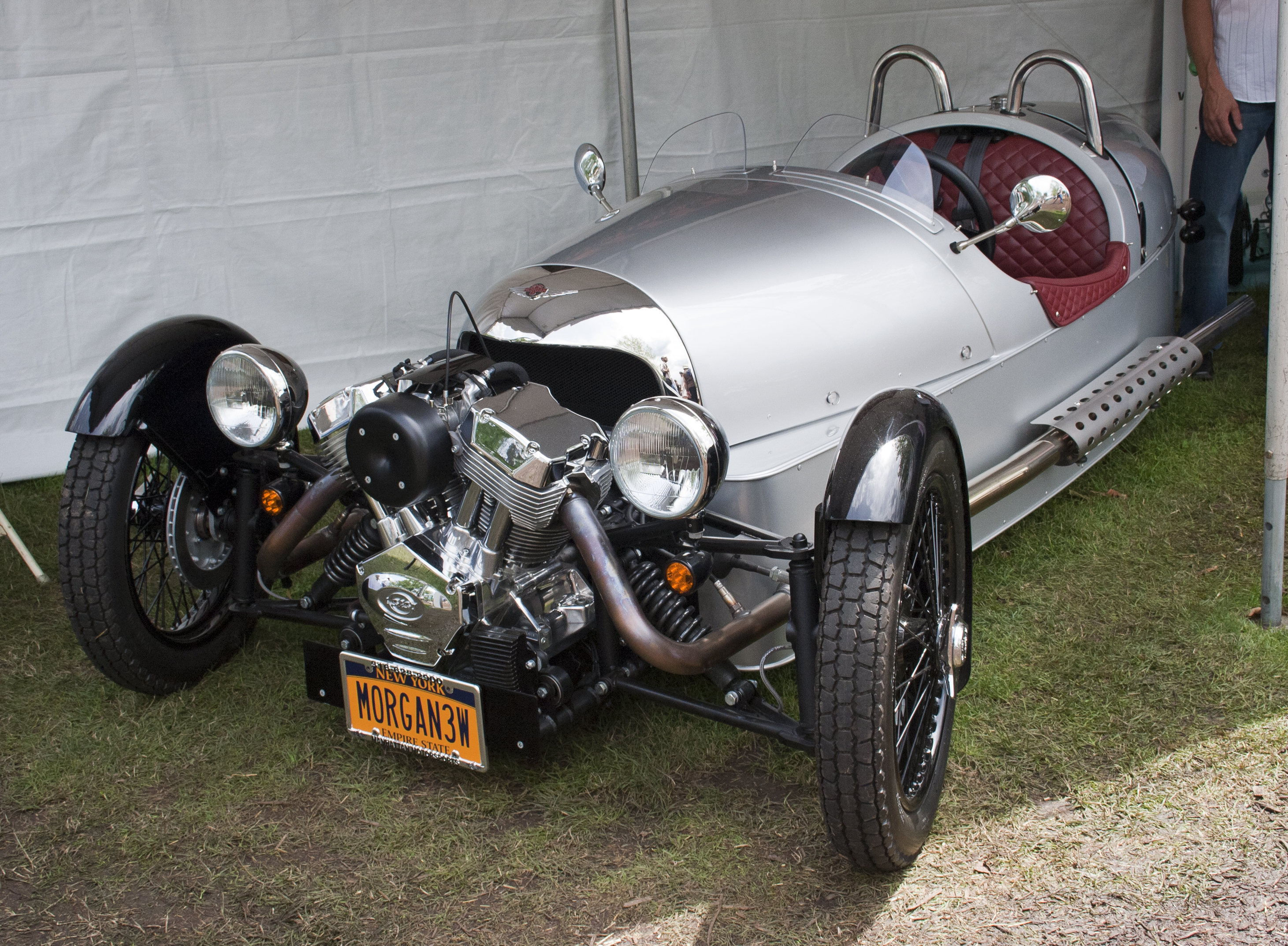 2012 Morgan Three-wheeler displayed at the 2012 Greenwich Concours d'Elegance.